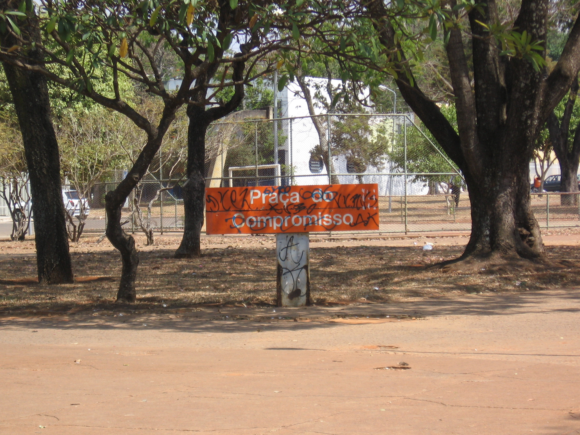 Picture of Compromise Square in Brasilia, Brazil